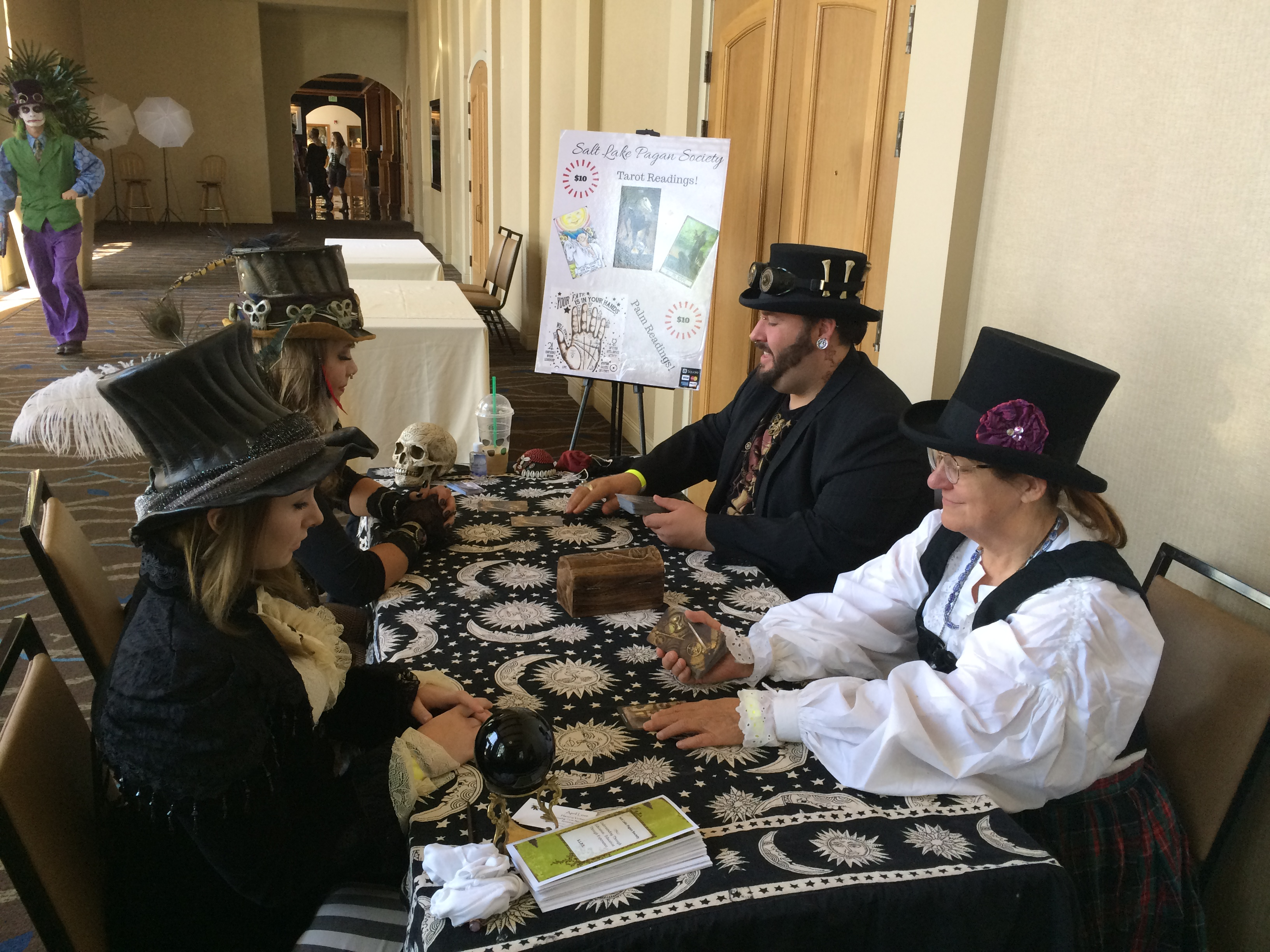 Cosplayers (left) receiving steampunk tarot readings from the steampunk tarot readers (right) at the 2015 Salt City Steamfest in Salt Lake City, Utah.